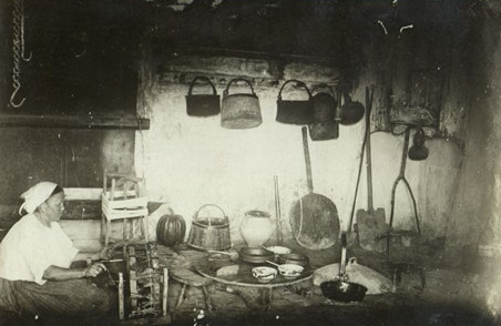 Bulgaria